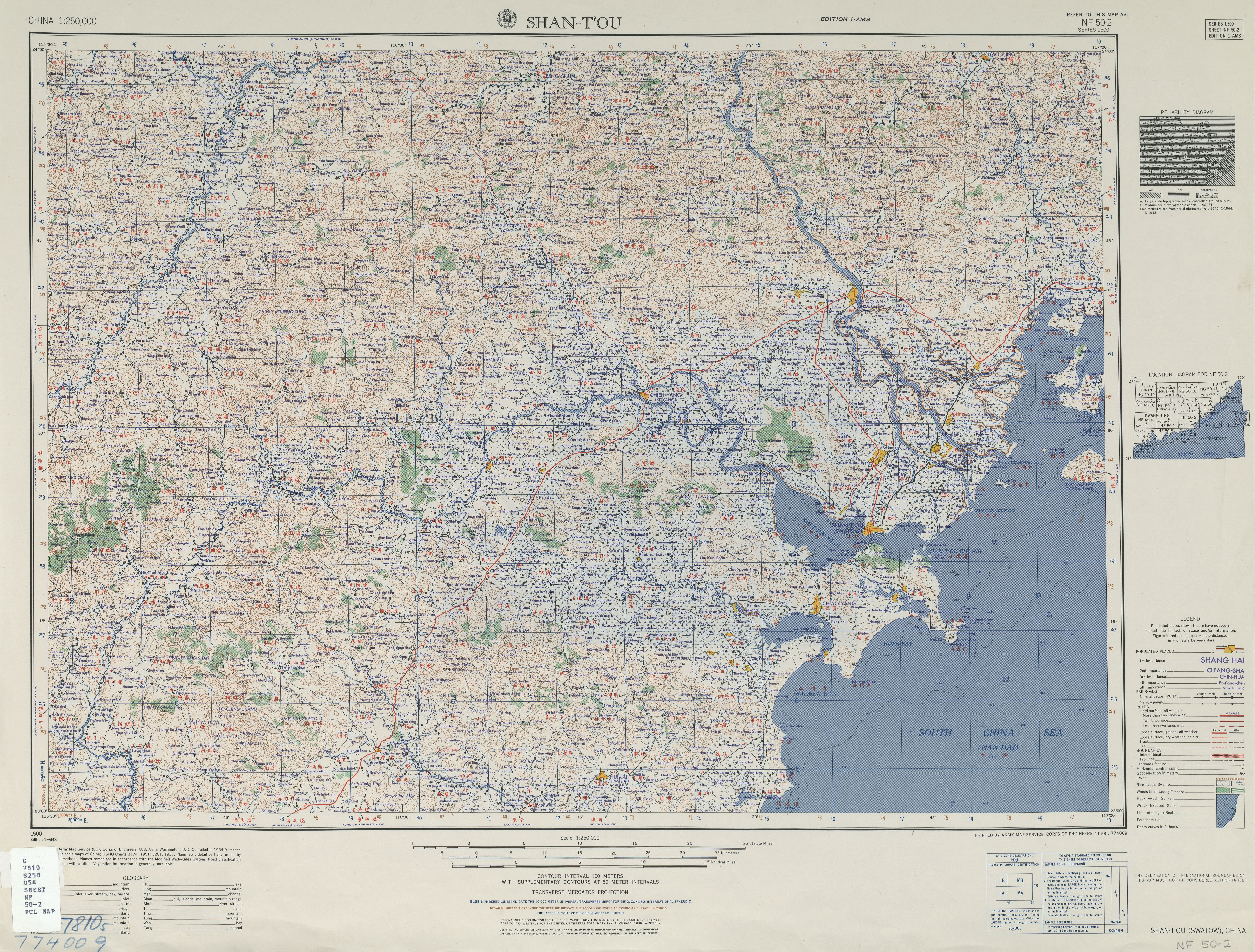 Map of Shantou (Shan-t'ou, Swatow) area, Guangdong